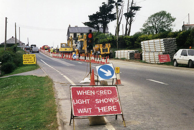 Poundstock: realigning the A39 at Bangors. Construction work to reduce a hump on the trunk road